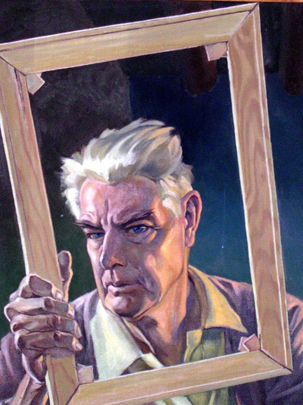 Cyrus Baldridge age about 80 years